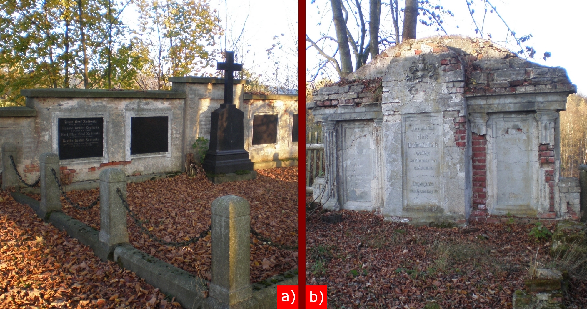 Tombs of Zedtwitz: a) in Kopaniny (Aš), b) in Doubrava (Aš). Both in Cheb District, Czech Republic.